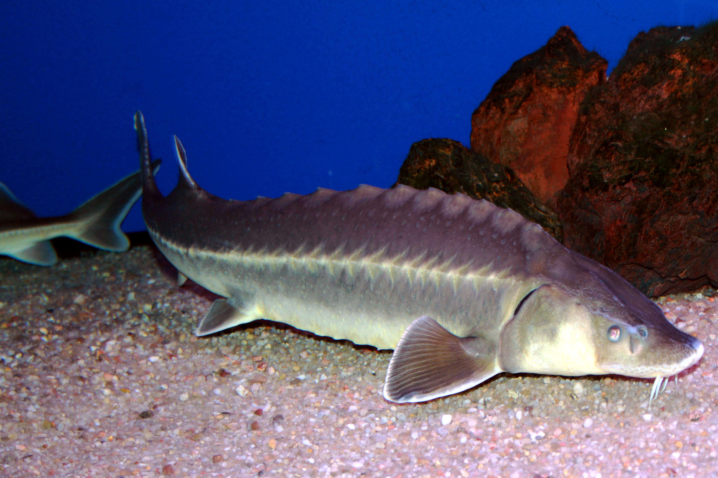 Fish Sterlet on exhibition Subaqueous Vltava, Prague 2011, Czech Republic